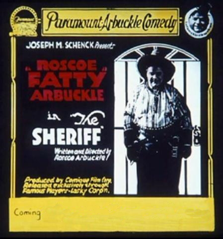 Glass slide for the American comedy film The Sheriff (1918).